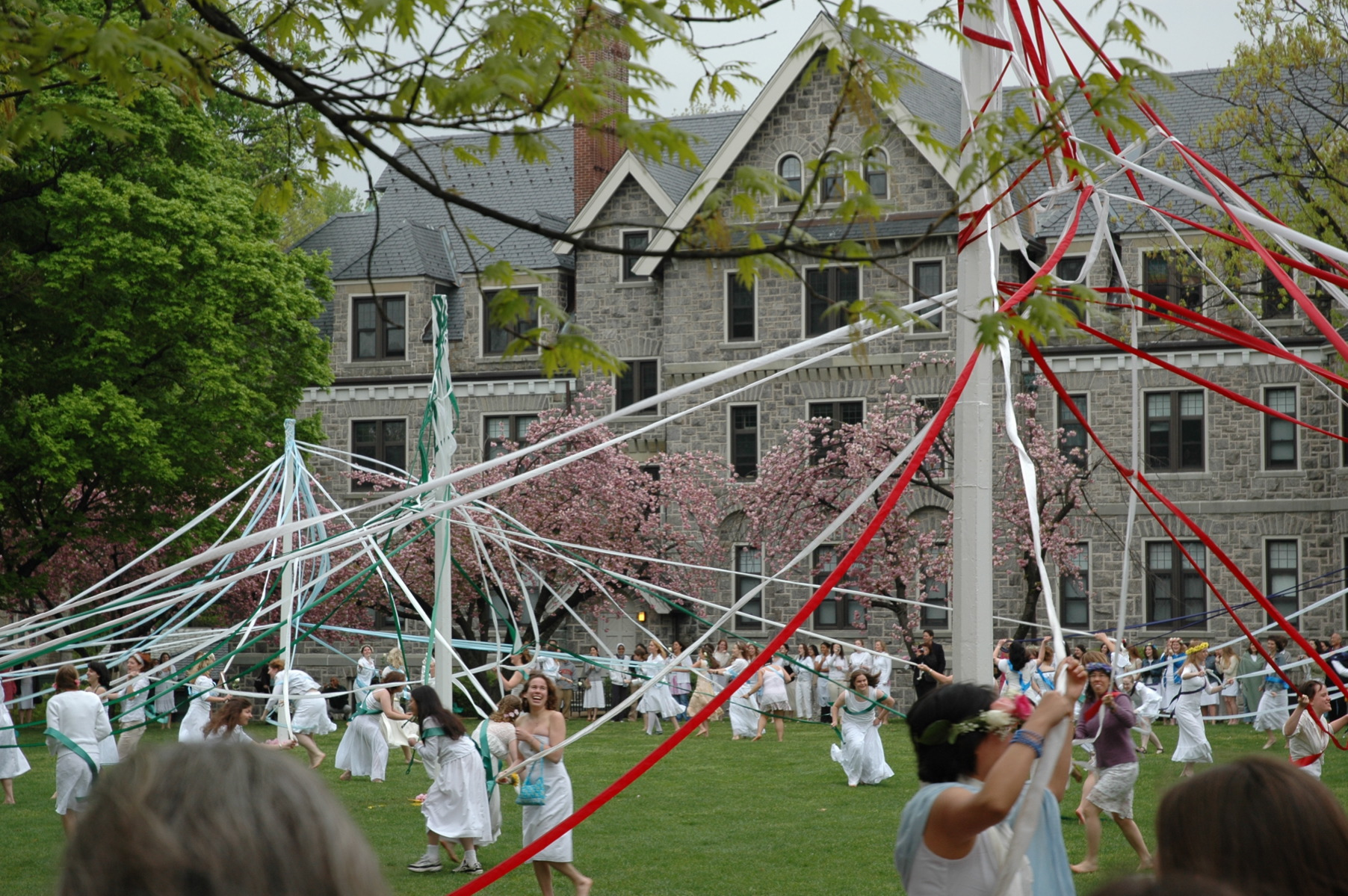 A traditional start to the day...Maypoles